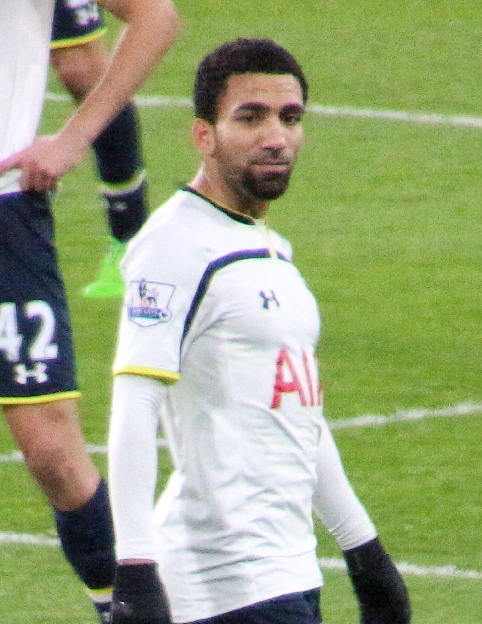 Chelsea 3 Spurs 0